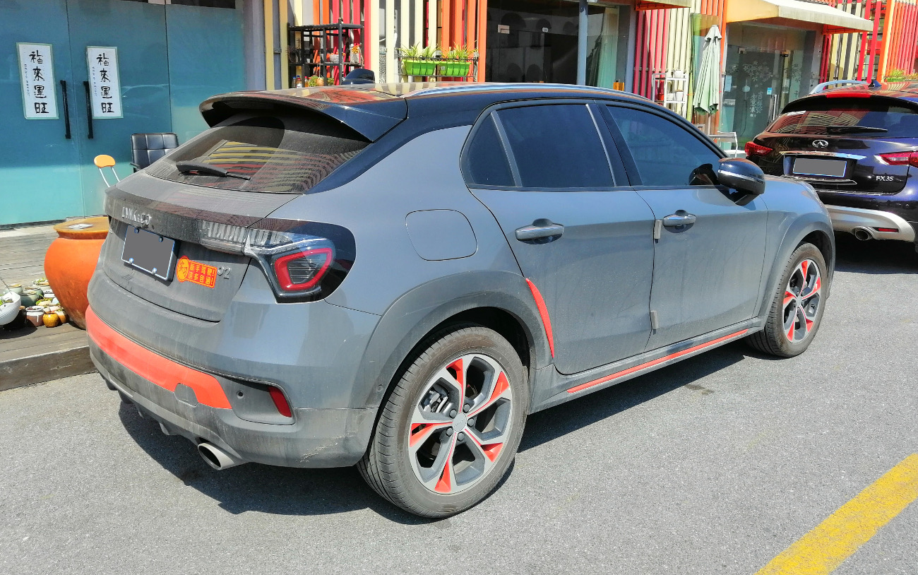 Lynk & Co 02 photographed in Shanghai, China.